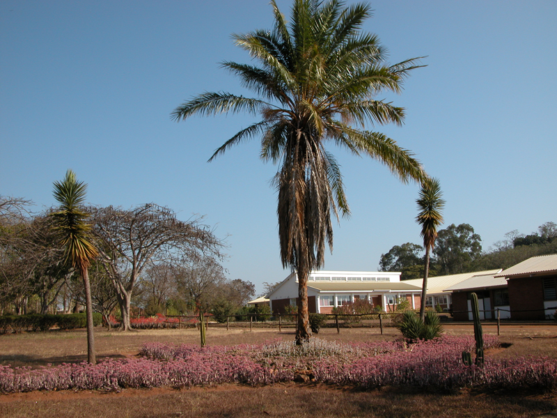 Bunda College of Agriculture (University of Malawi) near Lilongwe